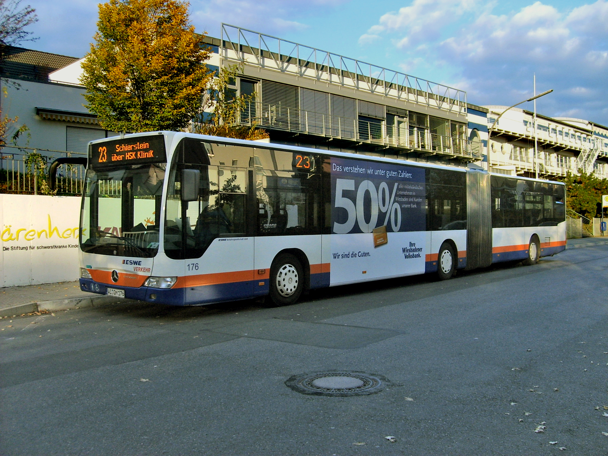 Citaro G II bus from ESWE Verkehr, year of manufacture: 2006, as number 23 at Schierstein habor in Wiesbaden, Germany